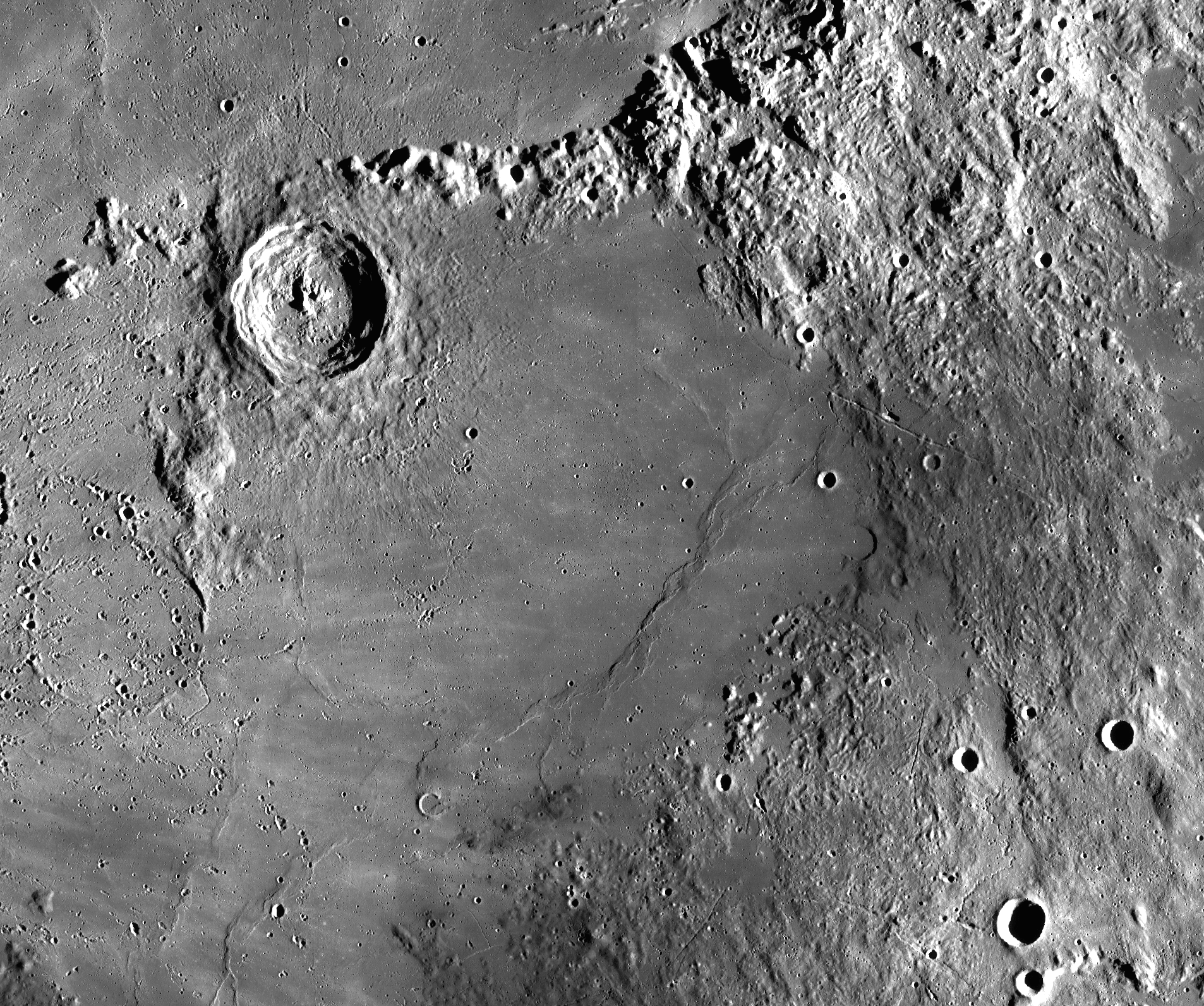 Sinus Aestuum on the Moon. Mosaic of photos by Lunar Reconnaissance Orbiter, made with Wide Angle Camera. Width of the image is 450 km, north is up.